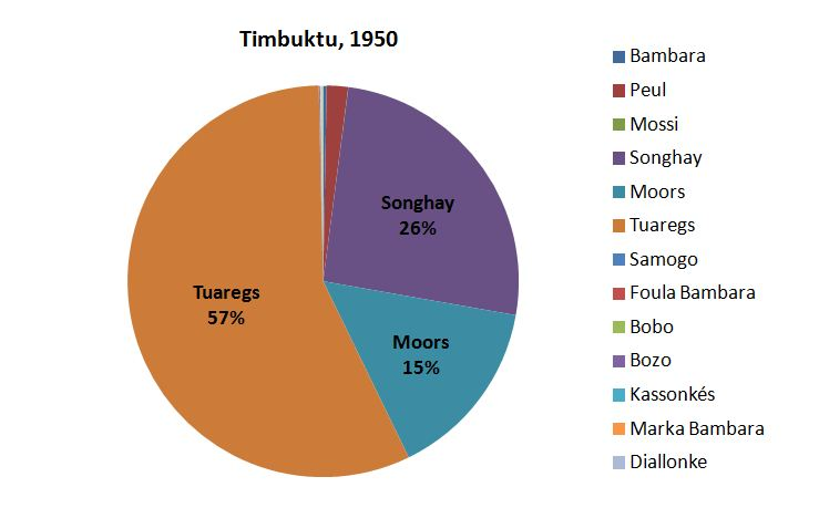 Figures from